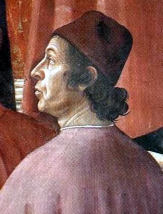 Zachariah in the Temple(detail) This portrait is one of four philosophers of the Medici Platonic Academy. It has been associated with Demetrios Chalkokondyles, and was engraved and published as such around 1900. However, it closely resembles other portraits, including one in Benozzo Gozzoli's Procession of the Magi, that are identified as Gentile Becchi. If this is NOT Becchi, where is Becchi in the painting? He was a constant at the Medici court and was politically of greater significance than Chalkondyles. Those who believe it to represent Becchi include E. H. and E. W. Blashfield in their annotations to Vasari's Lives of Seventy of the Most Eminent Painters, Sculptors and Architects, VOL. II (1896) Charles Scribener and Son. [1] and Hugh Ross-Williamson, Lorenzo the Magnificent, Michael Joseph, (p. 179) ISBN 0718112040